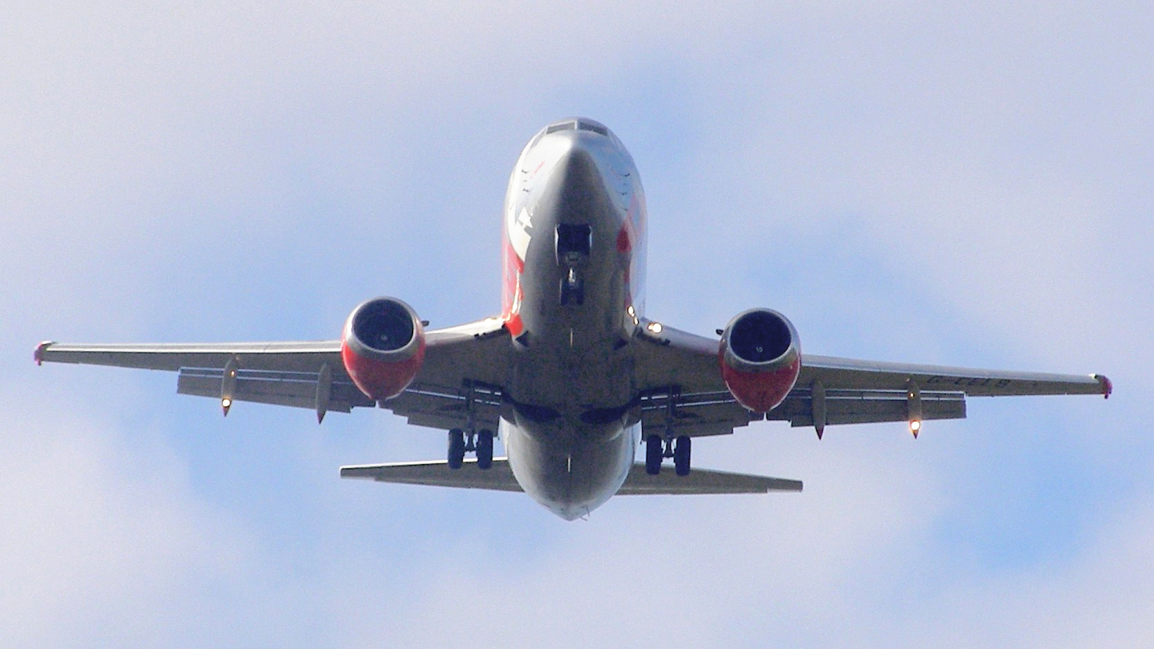 A 1986-built Boeing 737-377 registered in the United Kingdom as "G-CELS" on approach to land on Runway 08R at Gatwick Airport, England